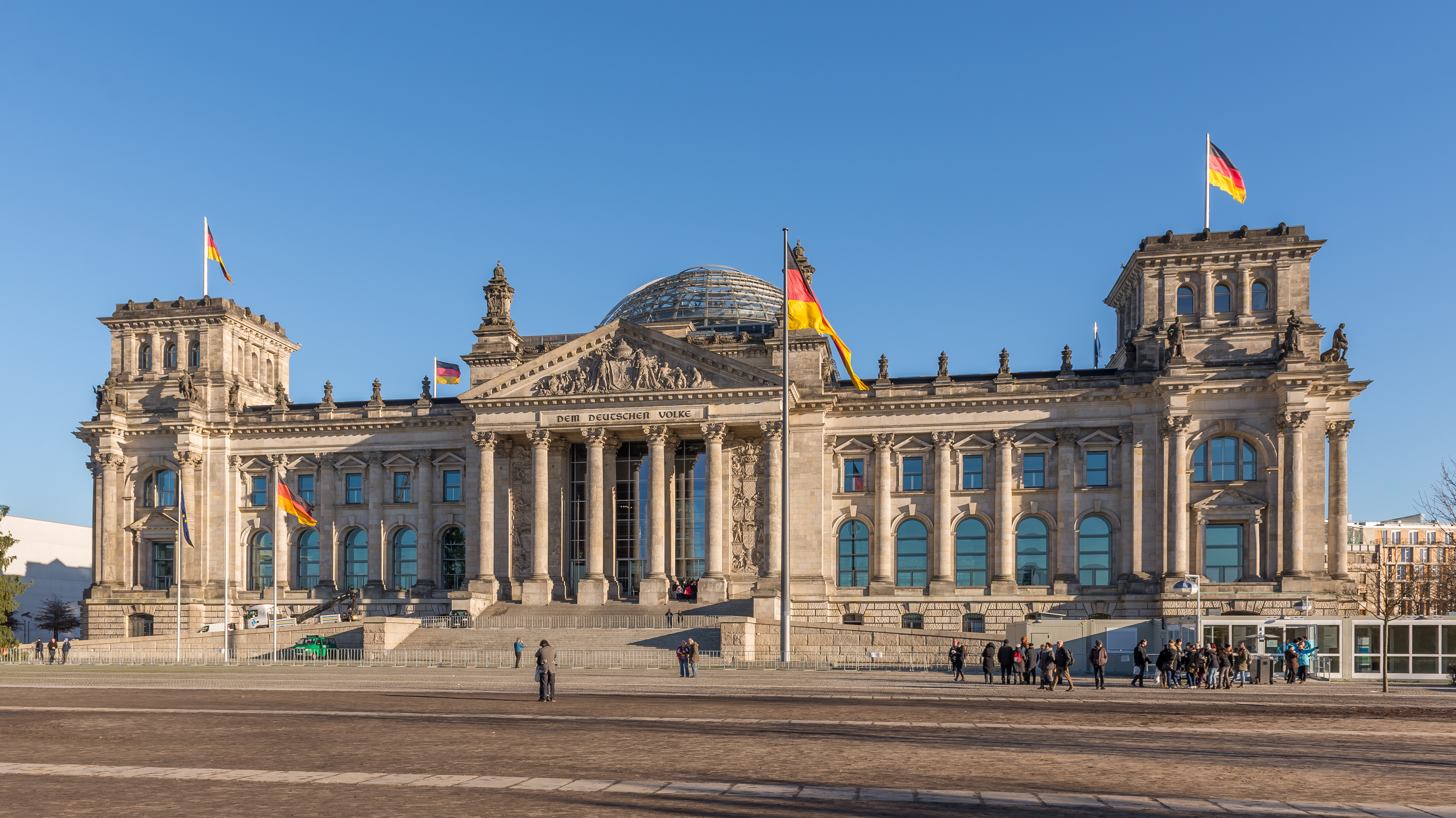 Reichstag building, Berlin.